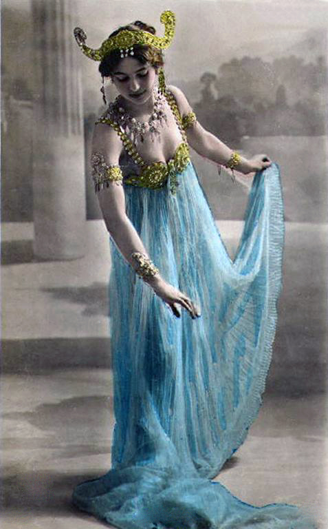 Postcard of Mata Hari in Paris